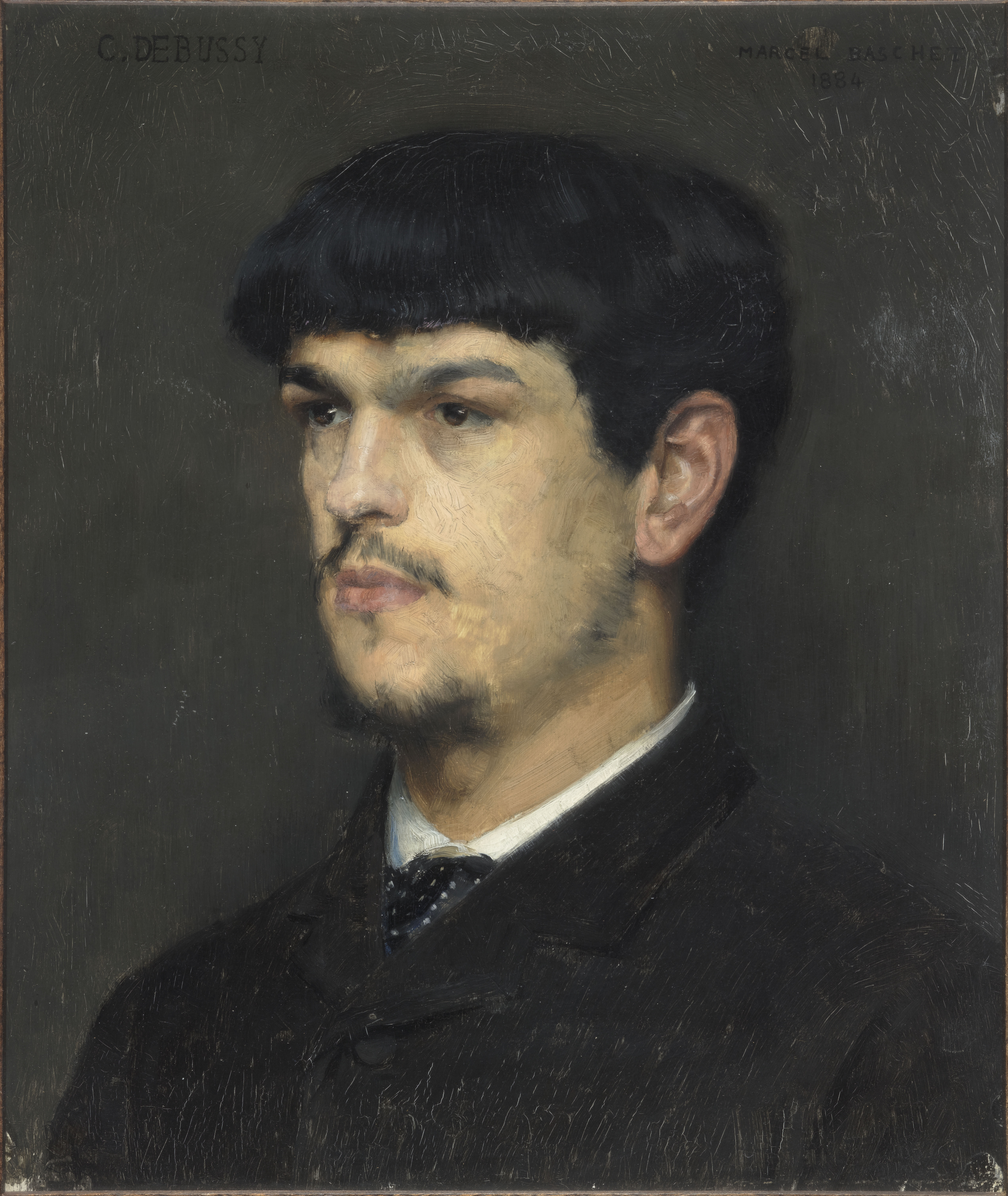 Portrait of Claude Debussy by Marcel Baschet, painted in 1884.